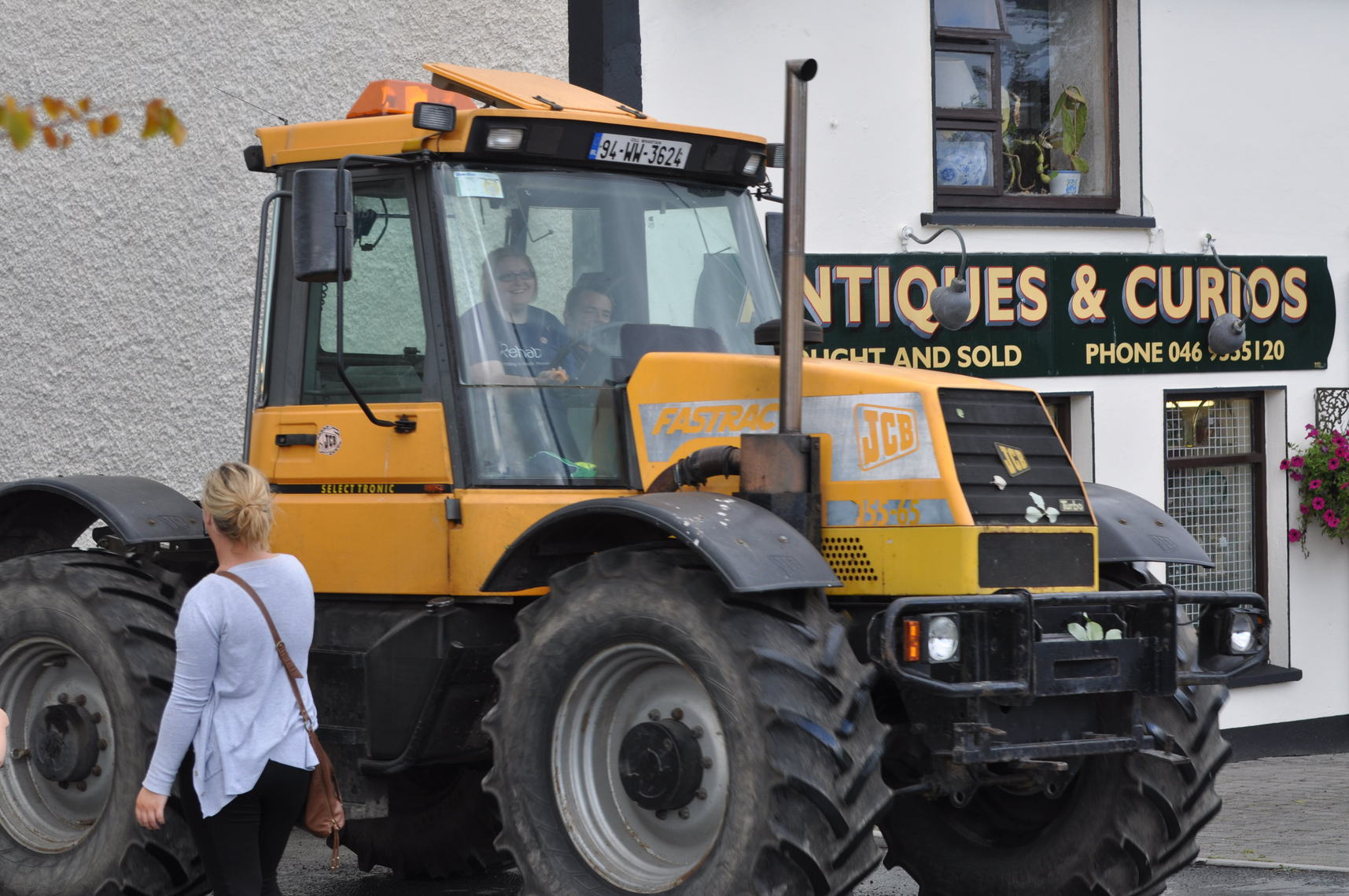 A JCB Fastrac 155-65 tractor at the 1st Annual Edward Cosgrave Tractor Run in Aid of REHAB - Sunday 21st August 2011. This was taken at the event held in Longwood, Co. Meath. This picture shows the return to the village from Saint Oliver's Road. See this on Facebook at [1]. – If you are interested in the full resolution of any photograph(s), with no watermark or polaroid effect, I can email it to you FREE OF CHARGE. Email address is petermooney78 AT gmail DOT com. The easiest way to do this is to open the picture in Flickr and copy the link at the top of the browser into your email. If you would like to use any of the photographs on your Facebook, LinkedIn, Twitter, Foursquare, account etc - please link back to the original photogaph on Flickr or attribute the source. All my photographs are available under a Attribution-ShareAlike 2.0 Generic (CC BY-SA 2.0) license. This just means that all you have to do is just link back or state where the photographs came from. This is the only "cost" of the images.